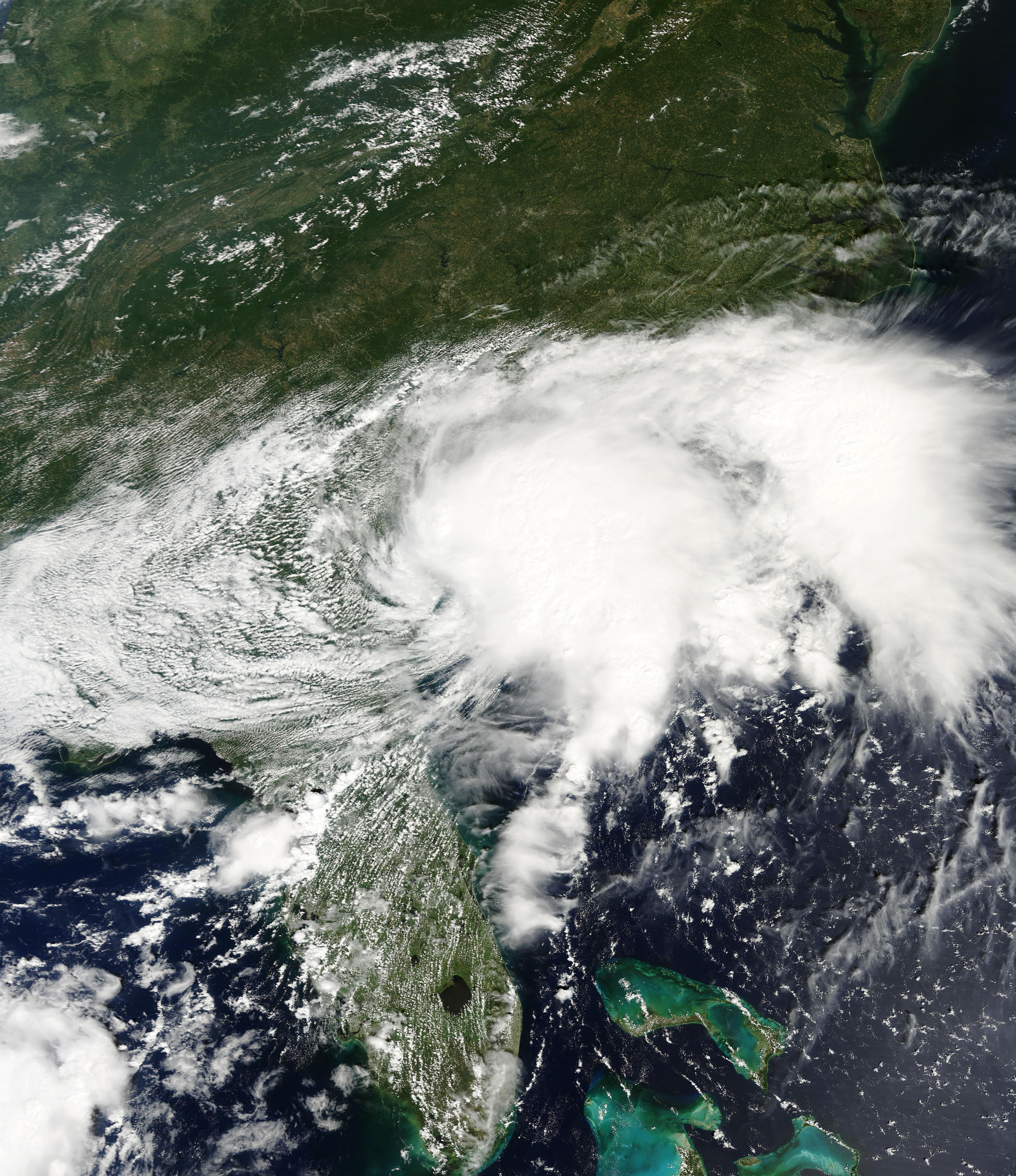 Tropical Storm Julia (11L) at peak strength over Southeastern United States on September 14, 2016